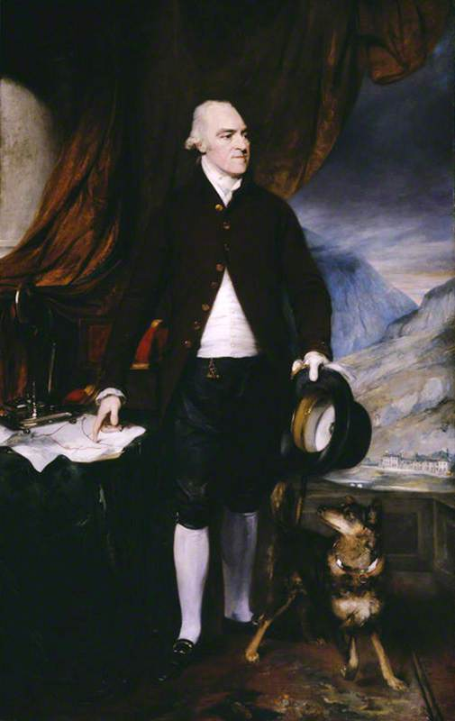 Portrait of Richard Pennant, 1st Baron Penrhyn of Penrhyn, and his Dog Crab